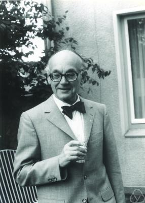 Max Deuring